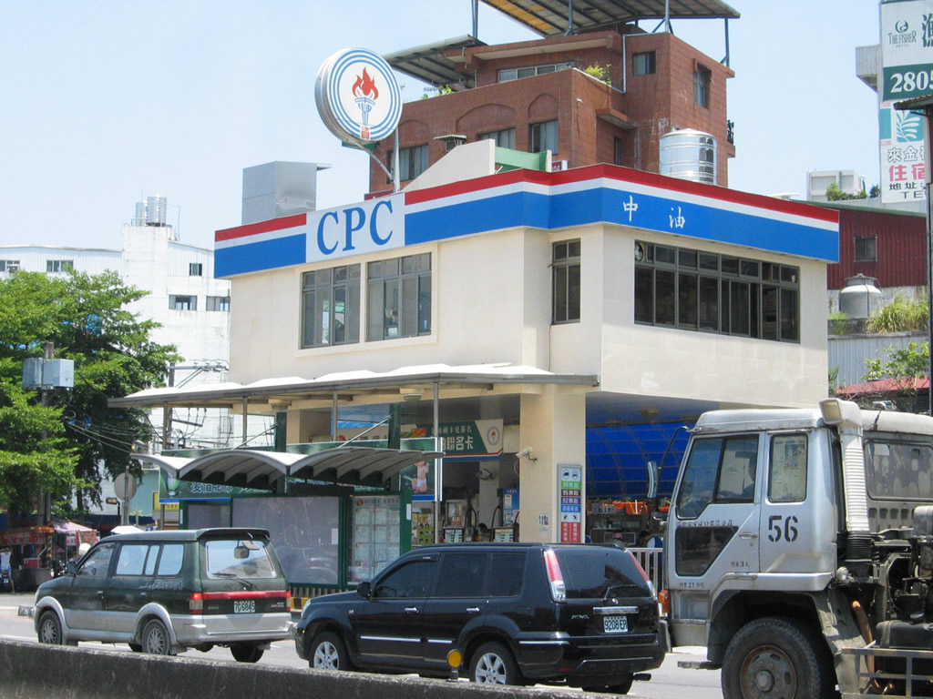 Tamsui Station, CPC Corporation, Taiwan.